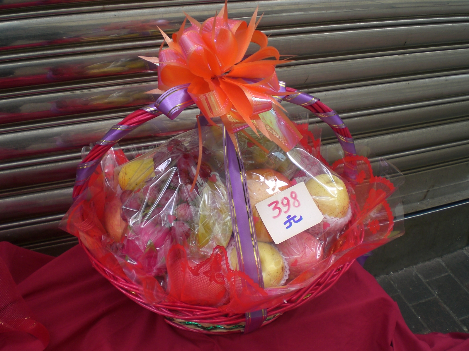 Gift fruit basket